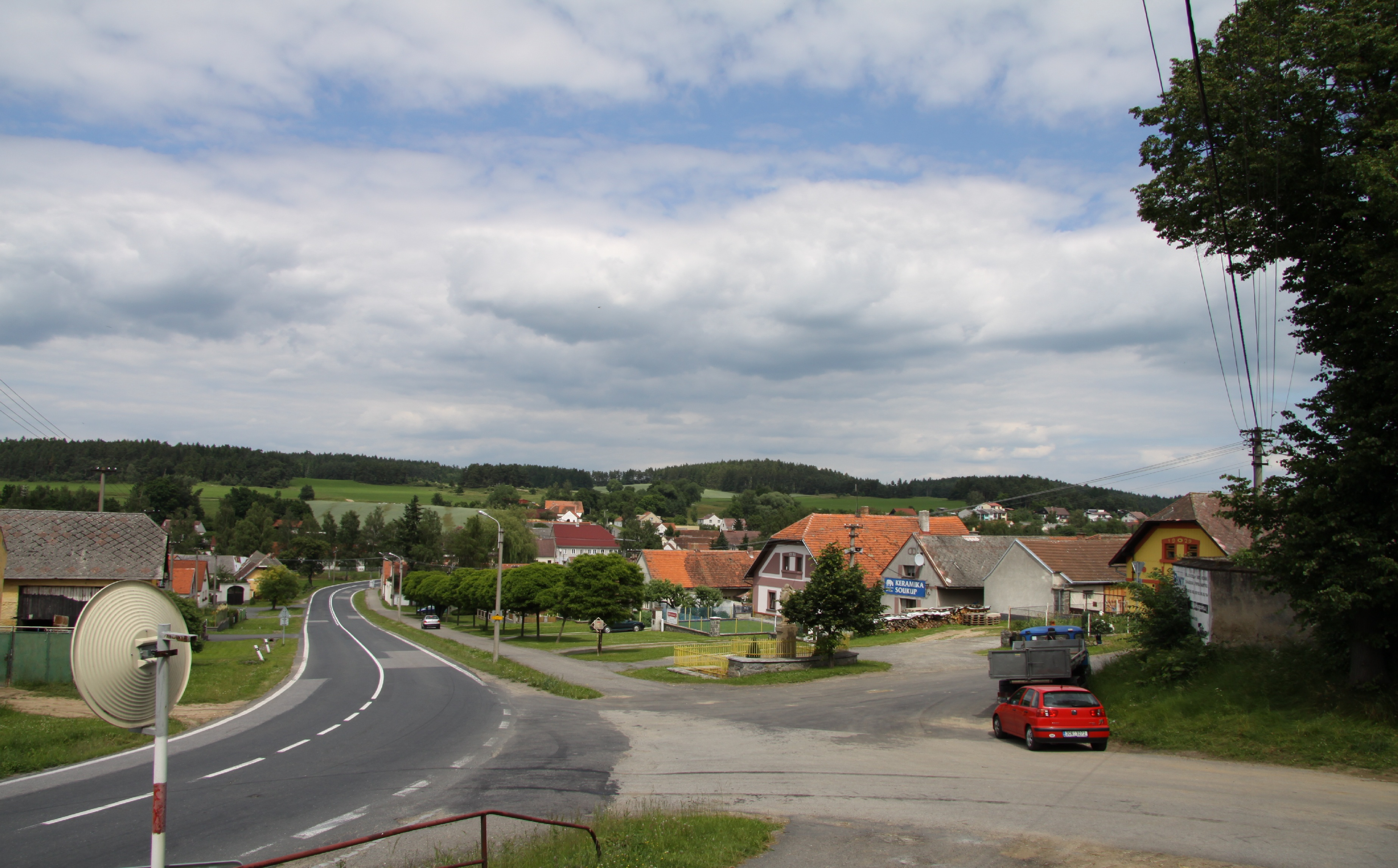 Malý Bor village in Klatovy District, Czech Republic This photograph was taken within the scope of the 'Czech Municipalities Photographs' grant. - Google Maps - Google Earth